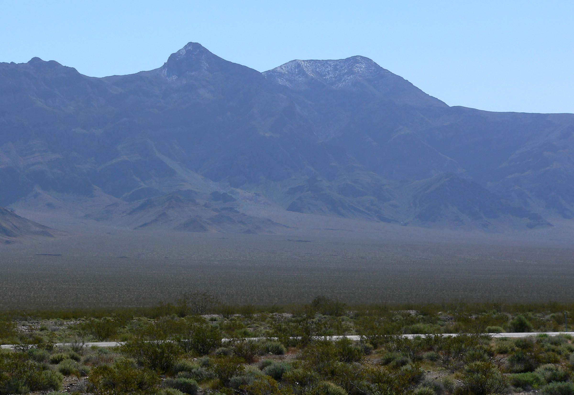 Nopah Range seen from Chicago Valley, Mojave Desert, California